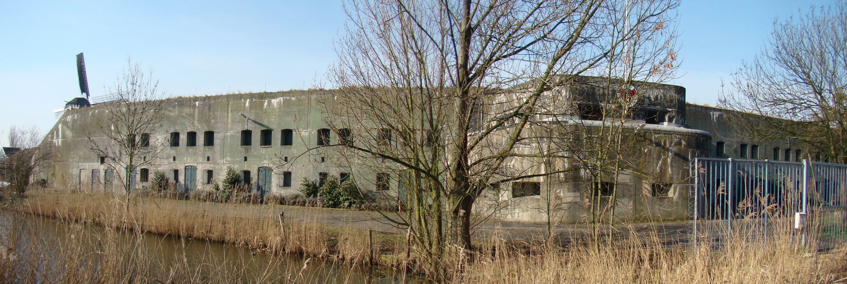 Fort at Hoofddorp, The Netherlands